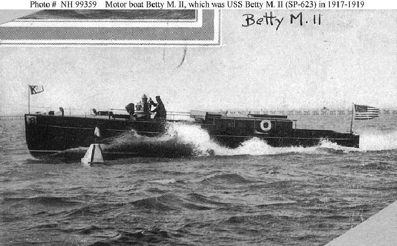 The motorboat Betty M. II prior to her service as the United States Navy patrol vessel